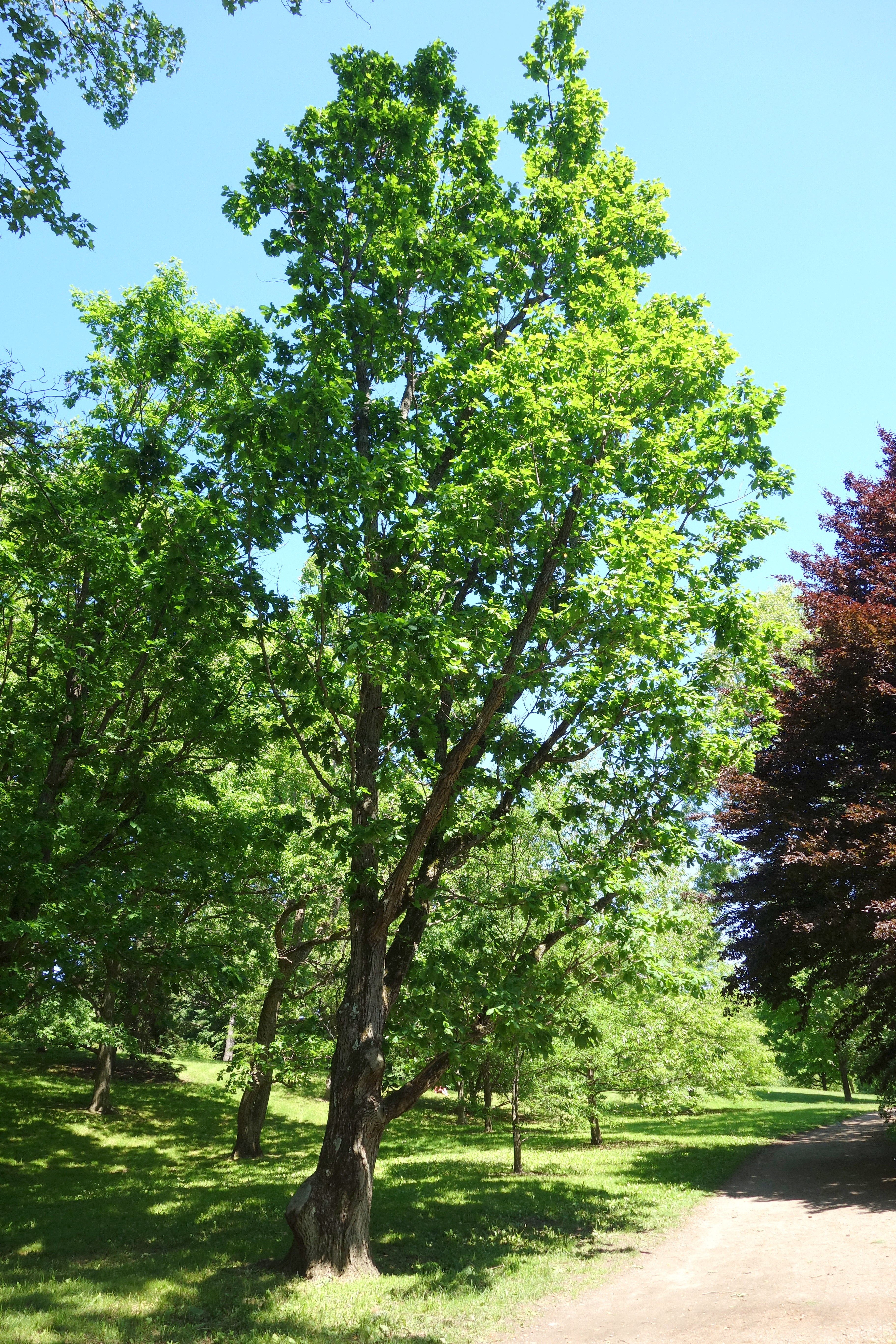 Botanical specimen in Arnold Arboretum, Jamaica Plain, Boston, Massachusetts, USA.